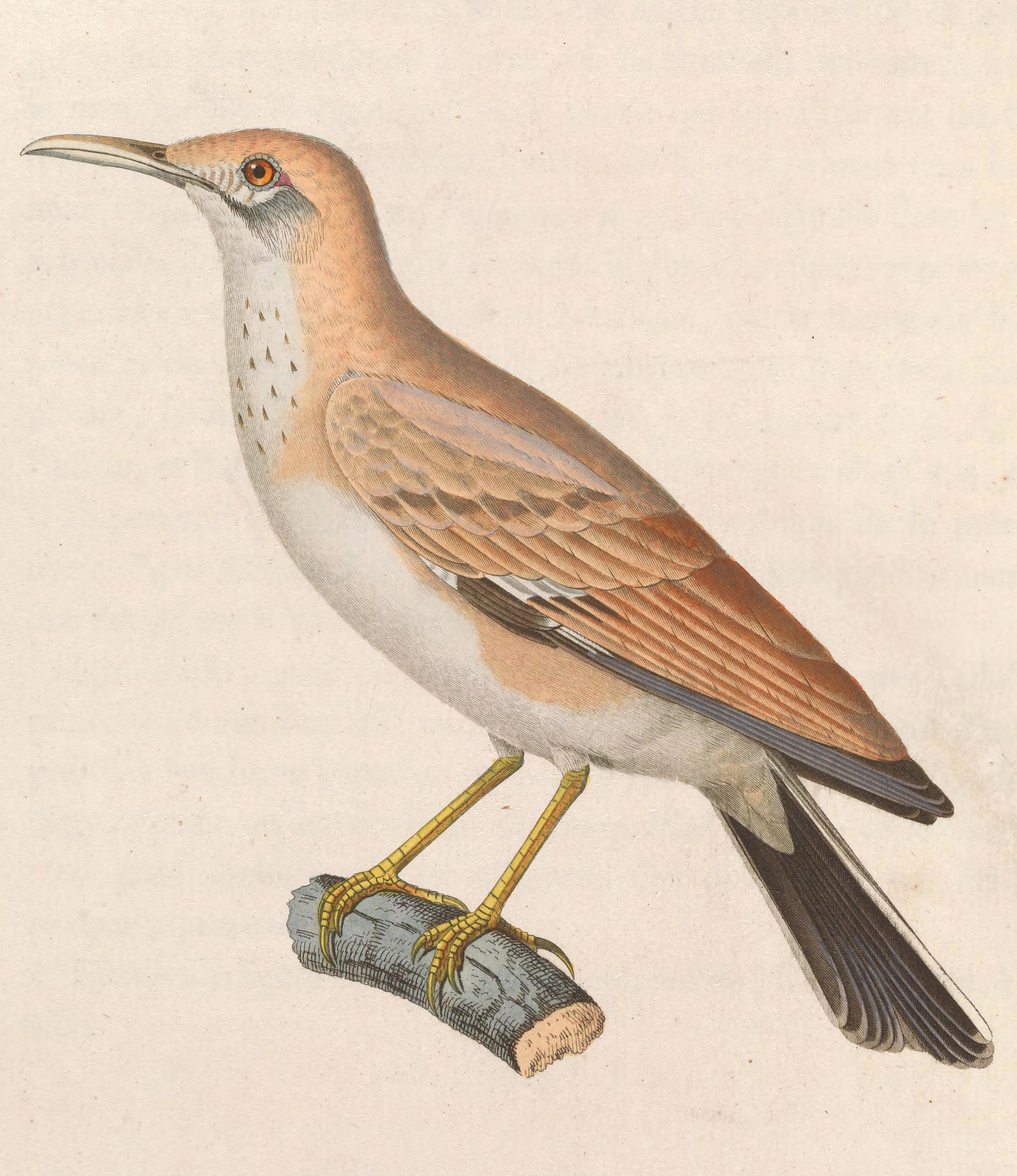 « Alauda bifasciata » = Alaemon alaudipes desertorum (Subspecies of Greater Hoopoe-Lark) - adult